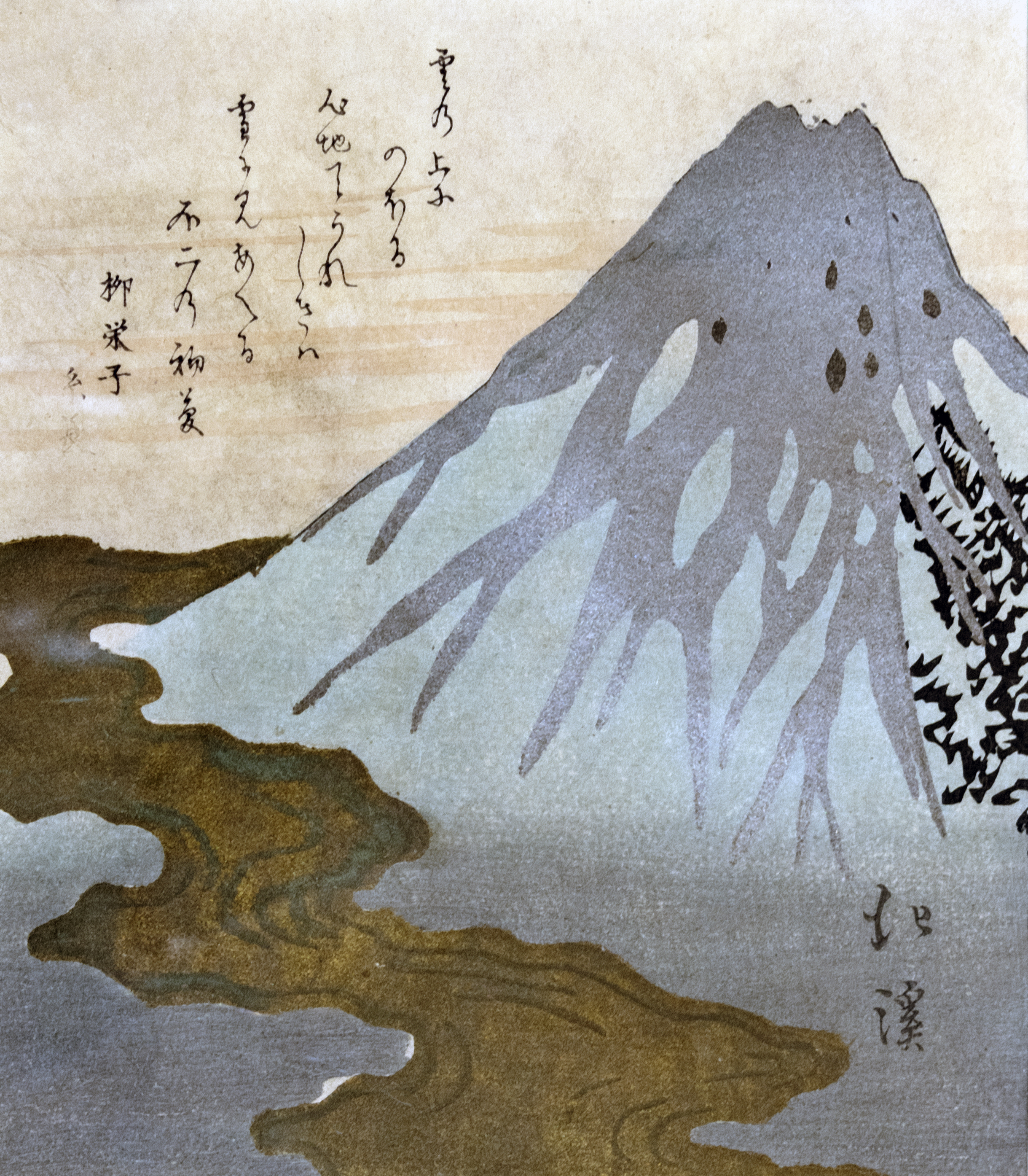 Mount Fuji in the clouds (Series Three dreams of luck ) - reprint v.1890